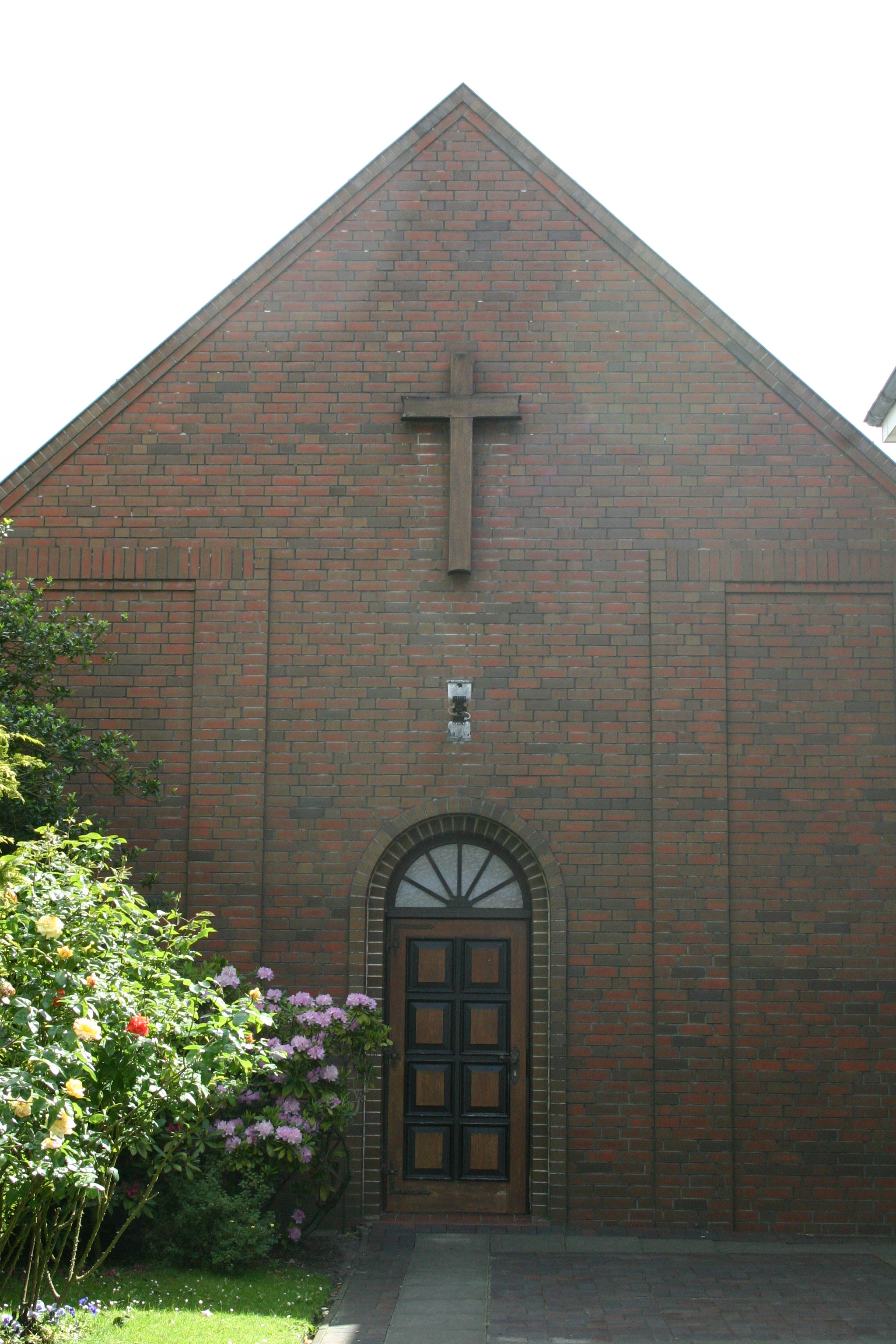 Historic church (Methodist, despite the title - mistake of the uploader!) in Aurich, district of Aurich, East Frisia, Germany